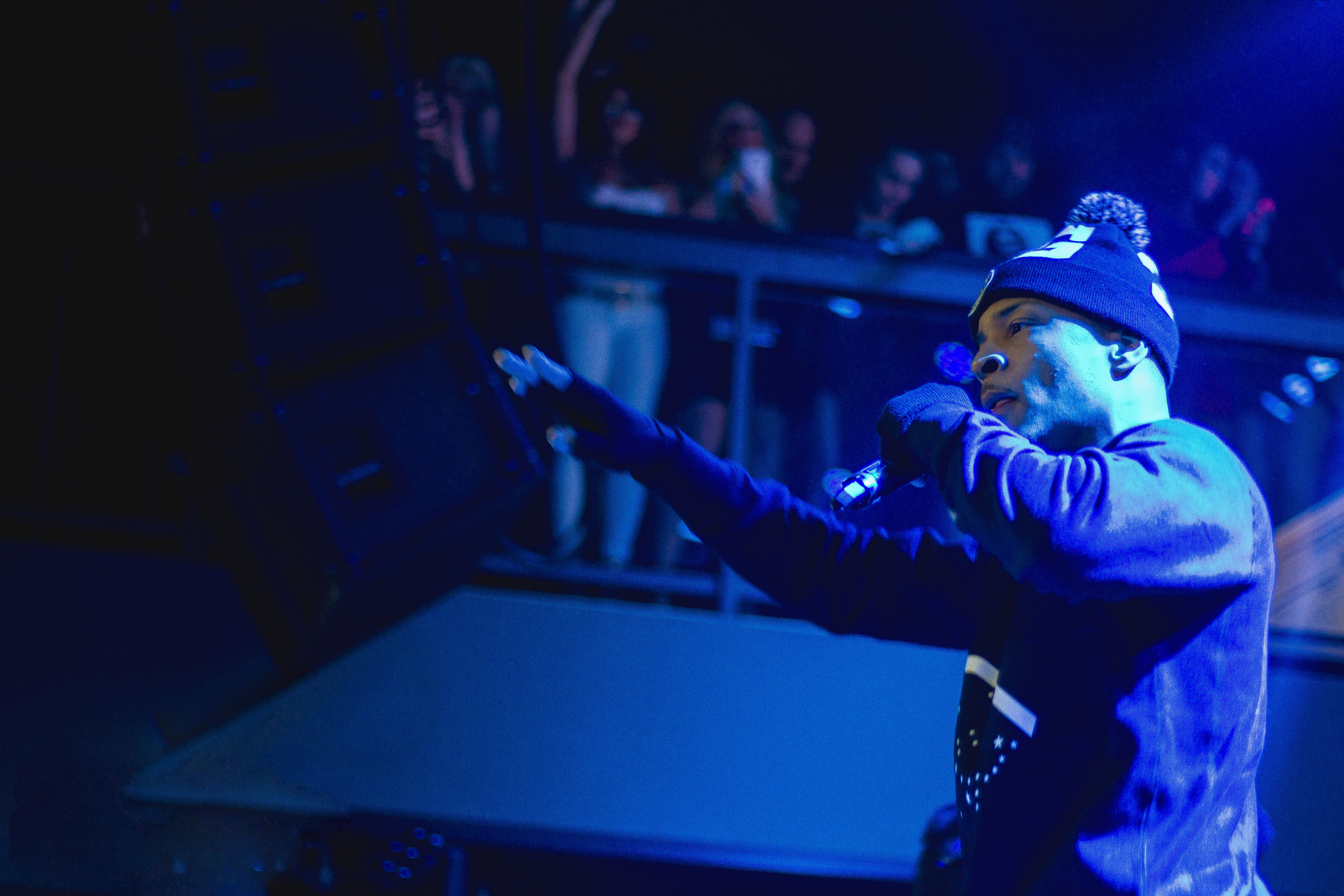 T.I. on his paperwork tour